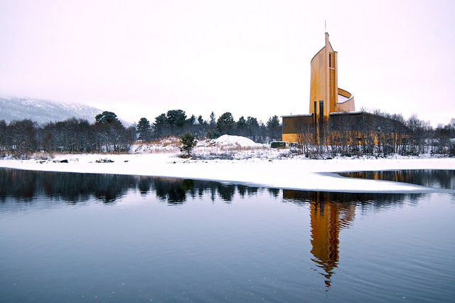 Geilo kulturkyrkje seen from Slåttahølen